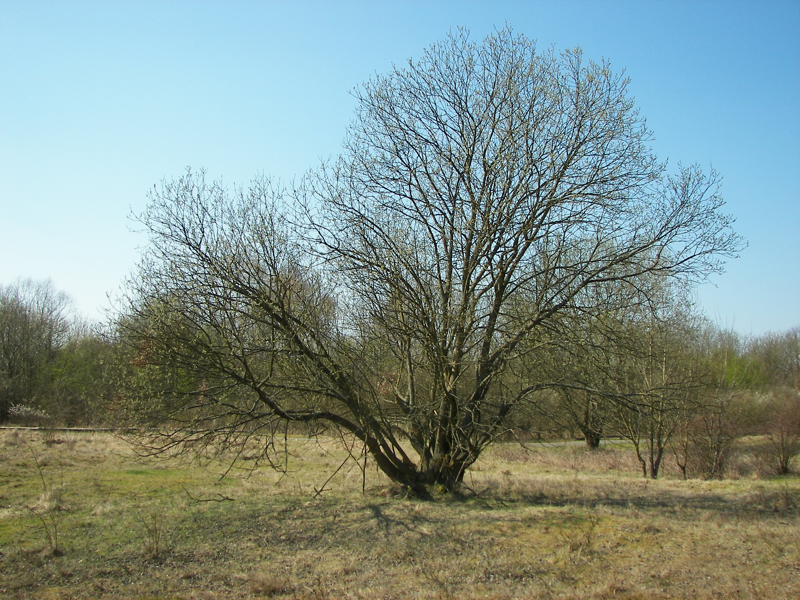 Goat Willow (Salix caprea)